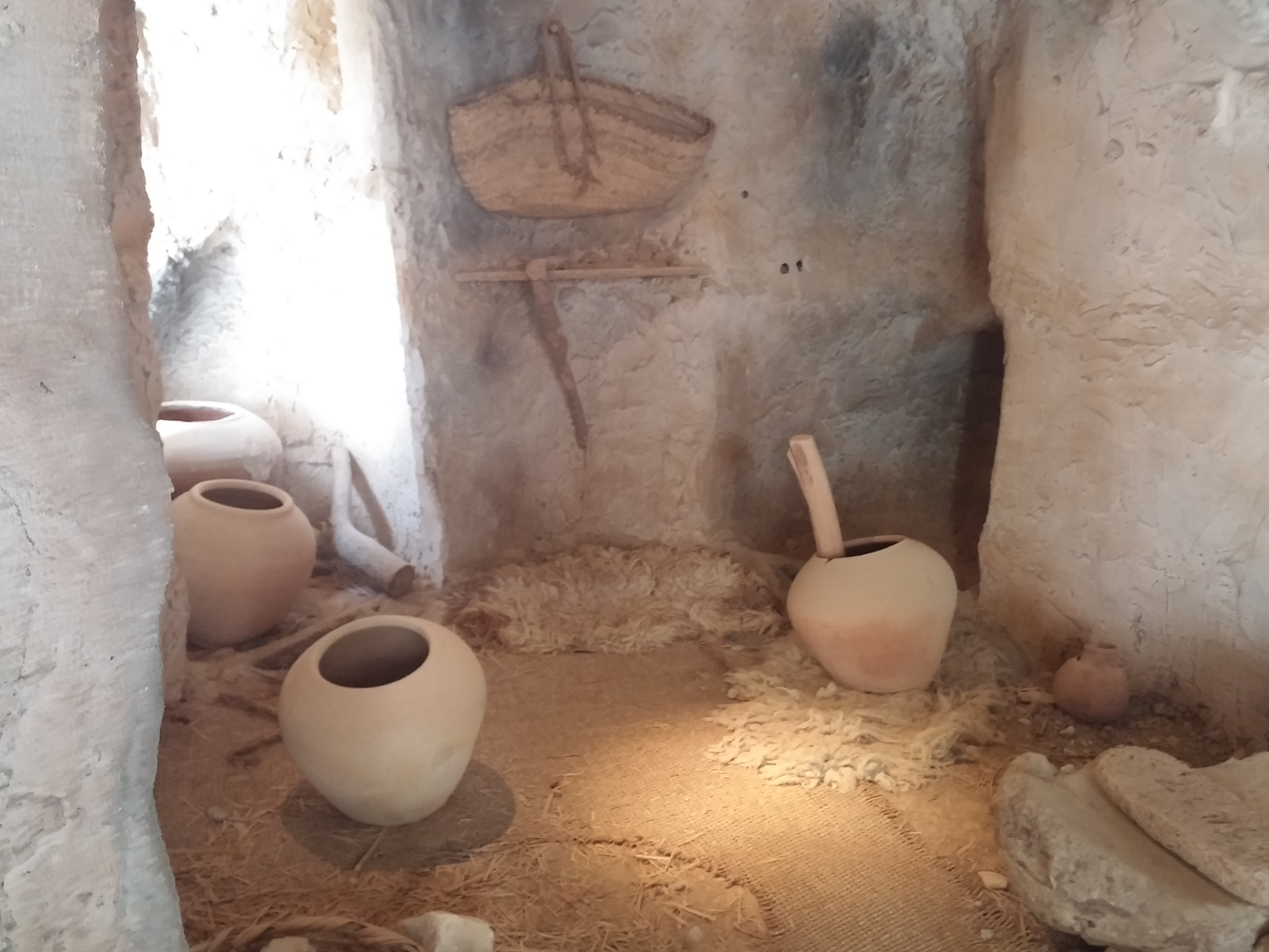 Residetial chalcolithic restored cave, Joe Alon Center for Bedouin culture, Israel